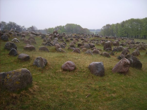 Lindholm Høje is a burial place in North Jutland from the Iron and the Viking Age.